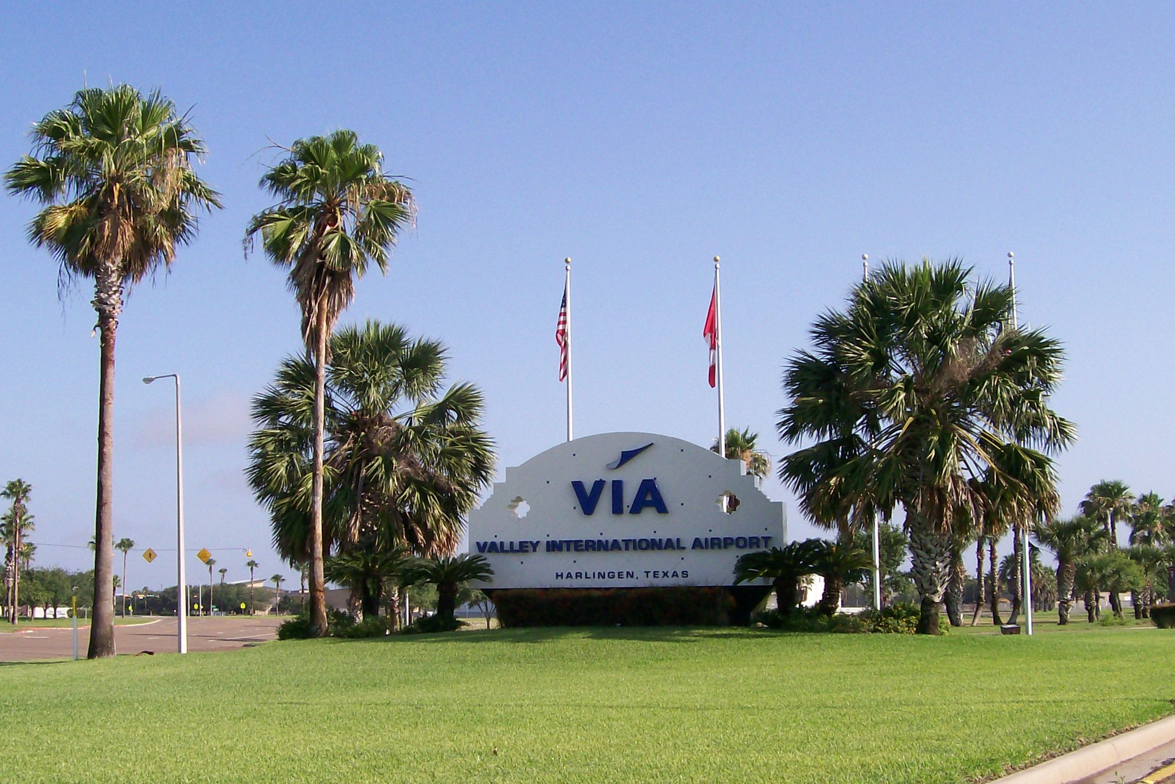 My own